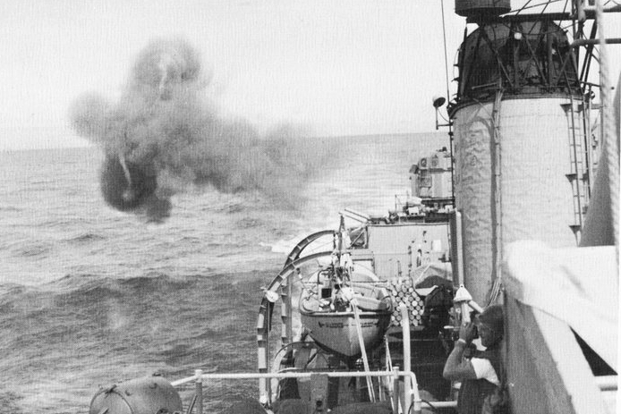 The U.S. Navy destroyer USS Maddox (DD-731) shelling North Vietnam in August 1968.